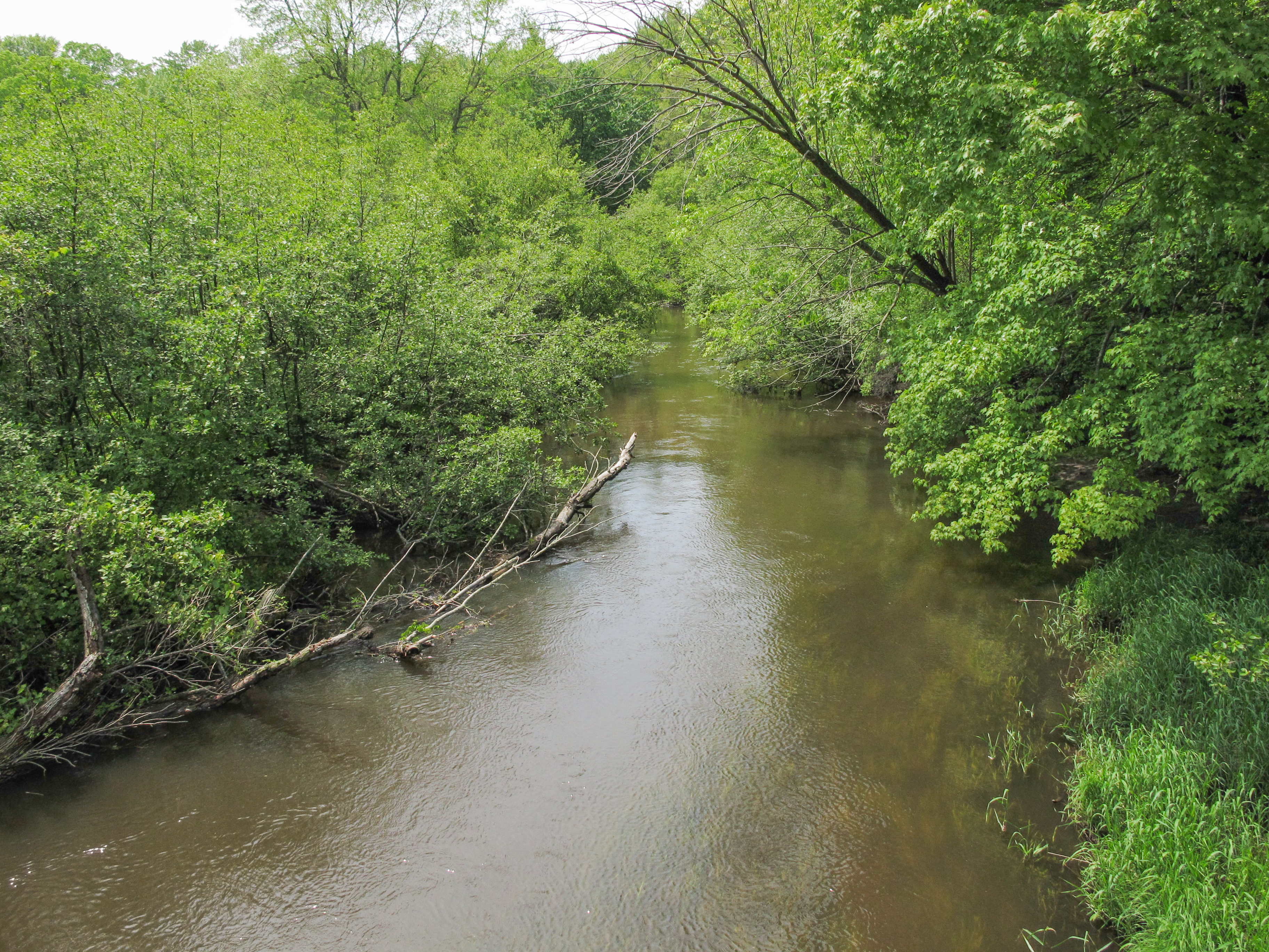 The Pigeon River as viewed from a pedestrian bridge in Hemlock Crossing Park in Port Sheldon Township, Ottawa County, Michigan